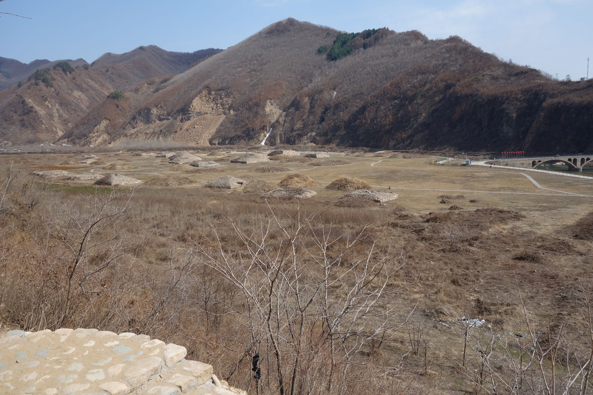 View of ShanChengXia Nobility Cemetery from Hwando Mountain Fortress